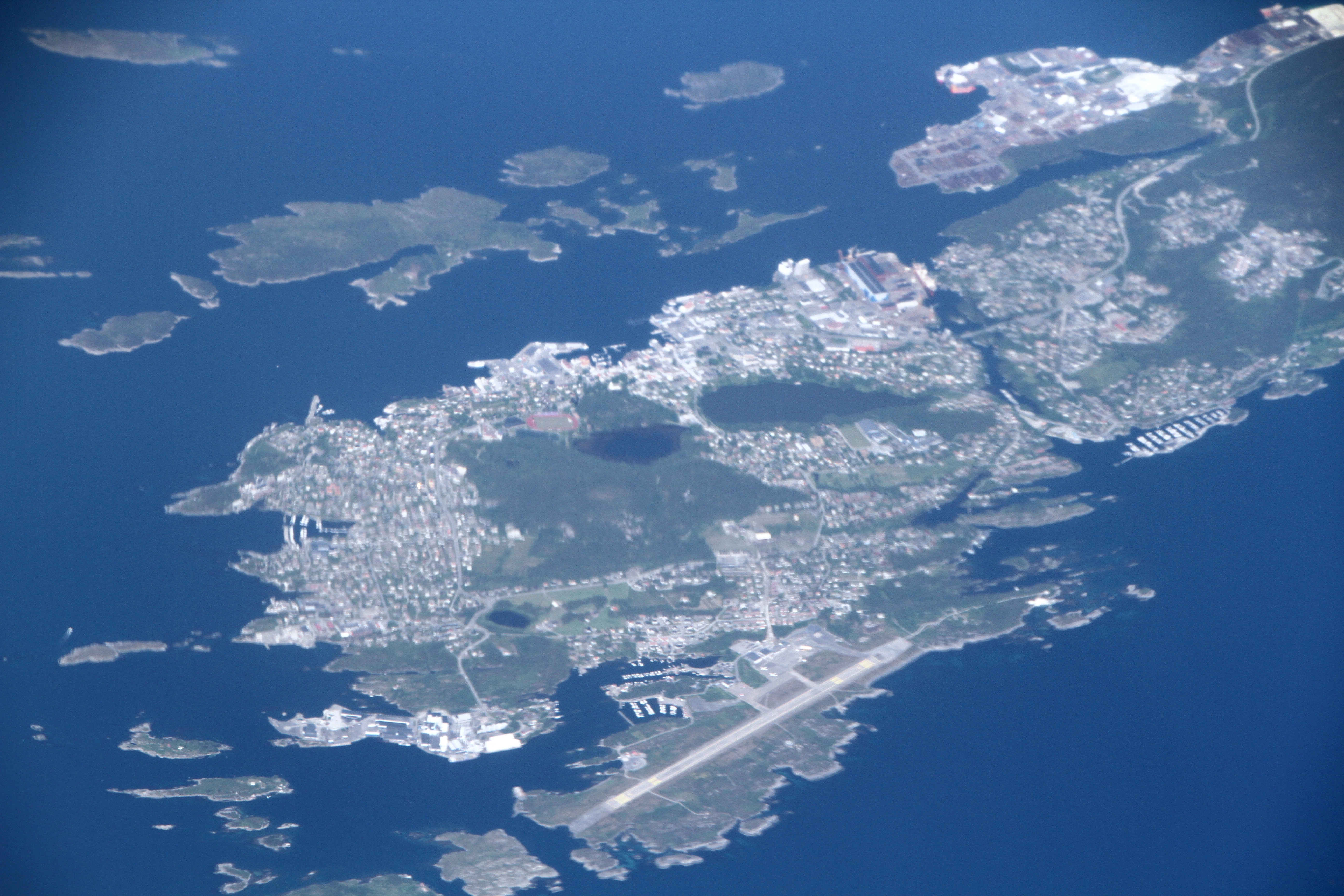 Aerial view from the south / southwest, of the coastal parts of the municipality of Flora, Sogn & Fjordane fylke (county), western Norway.